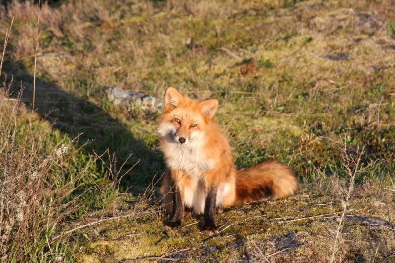 Red fox, native on San Juan Island